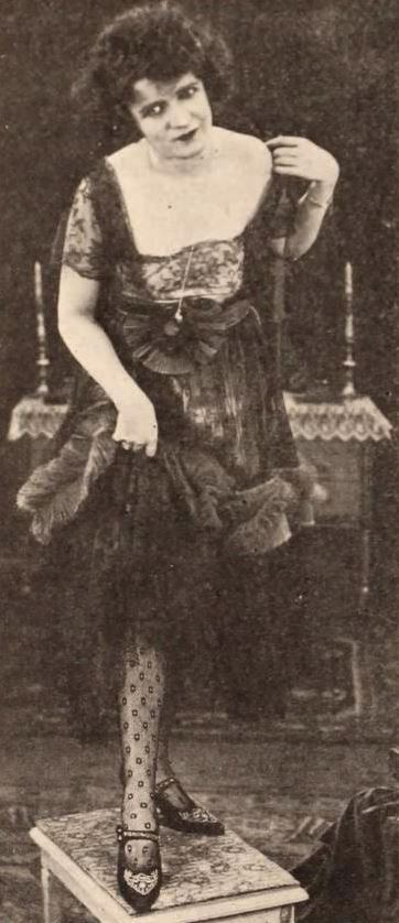 Still from the American drama film Clothes (1920) with Olive Tell, on page 56 of the October 30, 1920 Exhibitors Herald.